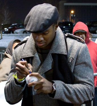 Bernard Berrian, Minnesota Vikings wide receiver, signs an autograph at the premiere of the movie Seven Pounds.